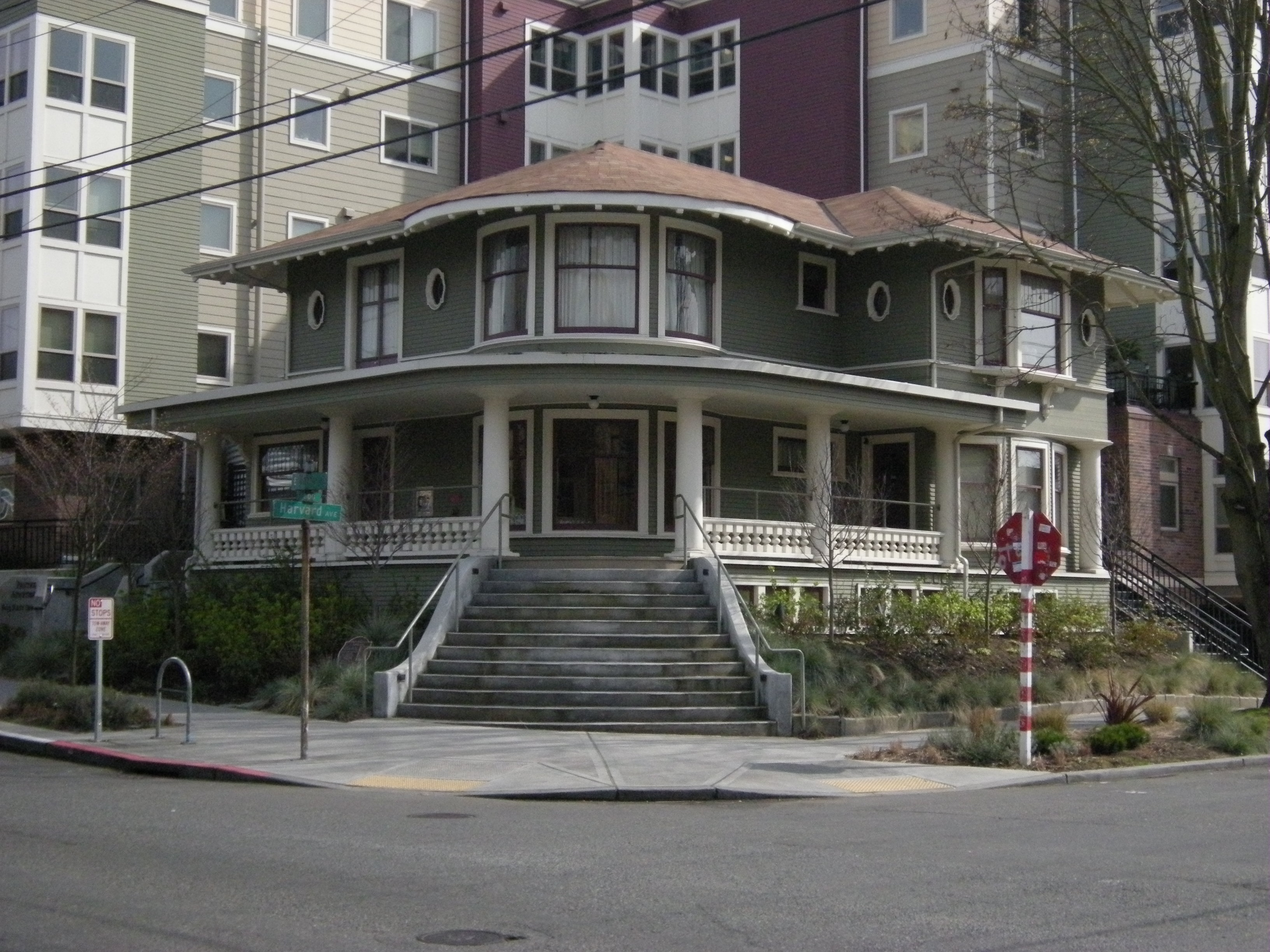 Pantages House (and, behind that, the Pantages Apartments), corner of Denny Way and Harvard Ave. on Capitol Hill, Seattle, Washington. The house, originally built in 1907 for vaudeville magnate Alexander Pantages, is a city landmark.